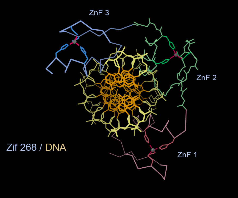 3-domain, Zn-finger transcription factor Zif268 binding to its recognition site on DNA (PDB file 1AAY). The DNA is shown with backbone in pale yellow and bases in gold; each Zn finger domain is in a different color; the Zn atoms are gray balls, with red bonds to their 2 histidine and 2 cysteine ligands. Each domain recognizes the edges of 3 base-pairs of the DNA.